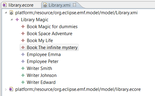 EMF based dynamic model